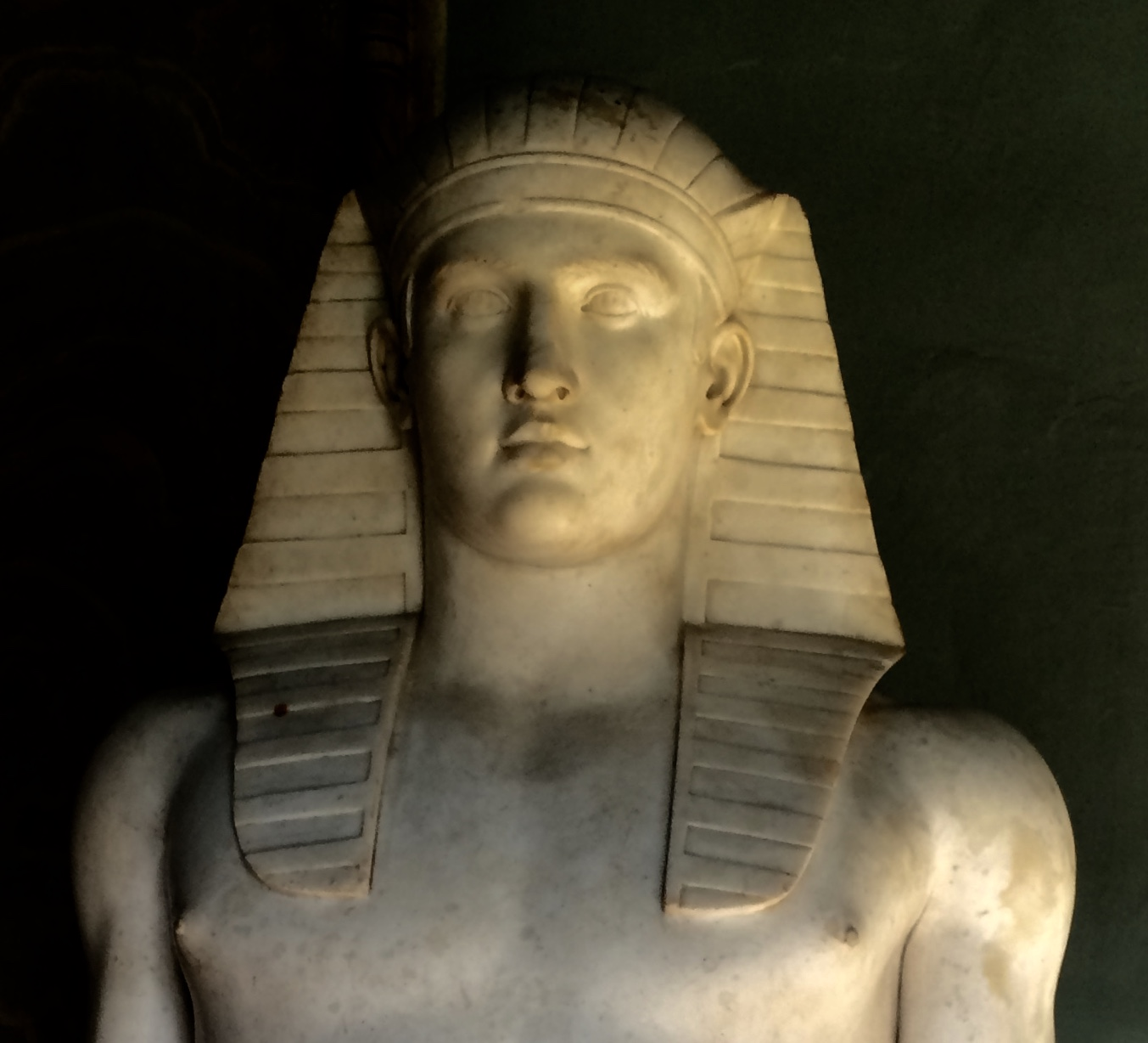 Portrait of Antinous, the lover of Emperor Hadrian, as an Egyptian Pharaoh. Antinous is depicted as Antinous-Osiris. Found in 1740 at Hadrian’s Villa, the statue is now housed at the Vatican Museums, Vatican City. c 130-138.